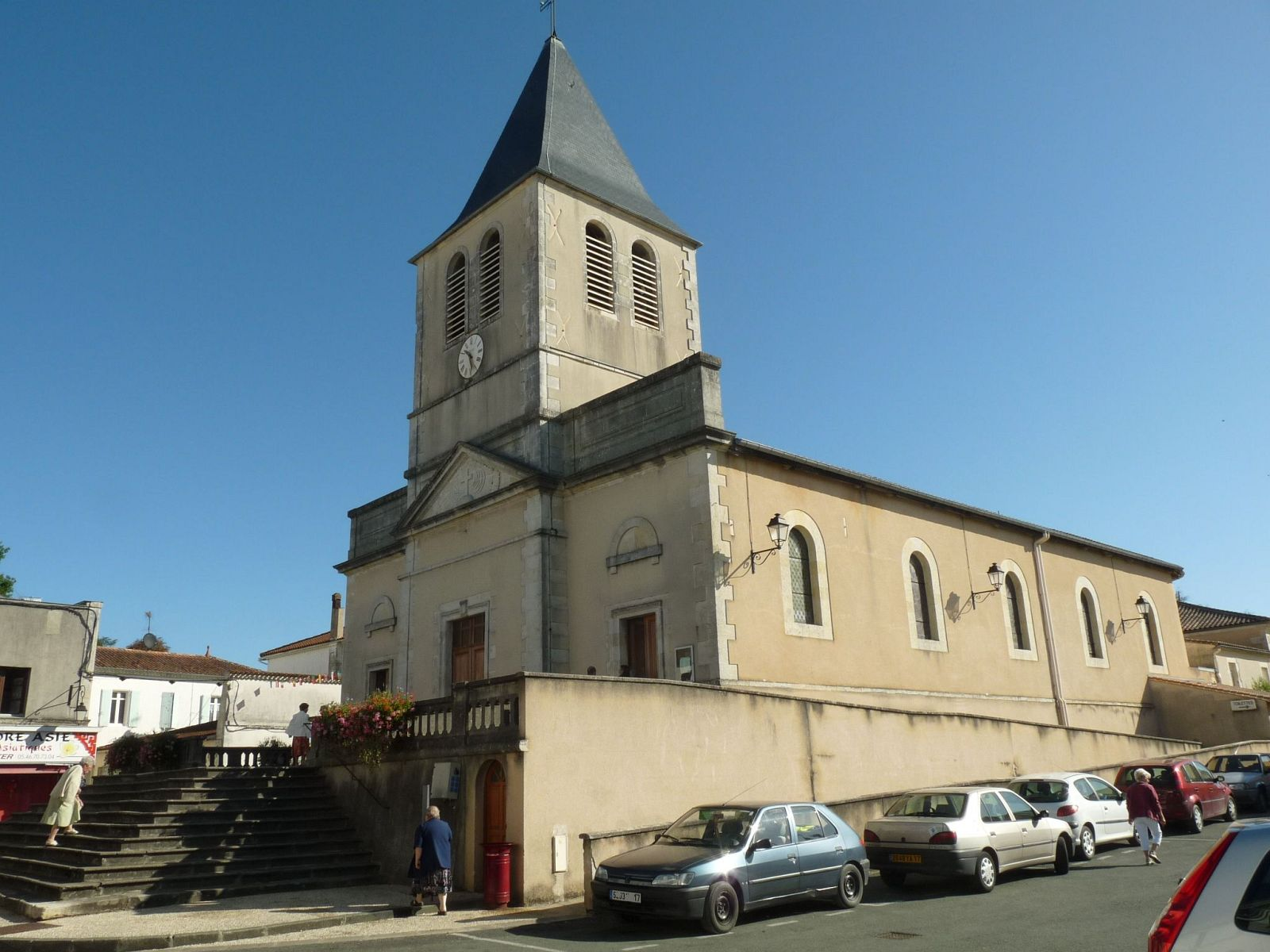 church of Montendre, Charente-Maritime, SW France